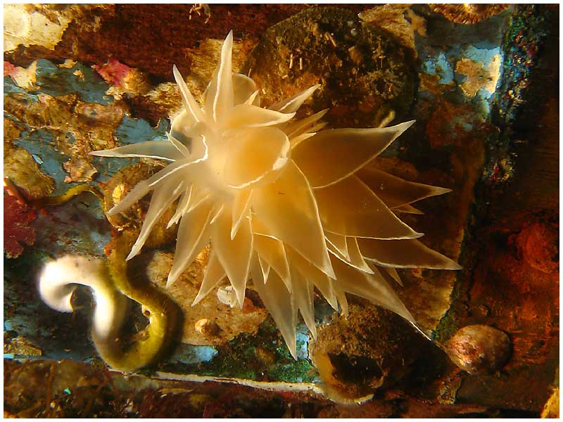 Dirona albolineata in Puget Sound